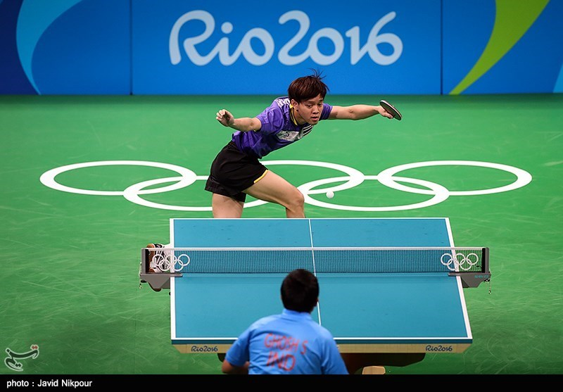 Table tennis at the 2016 Summer Olympics